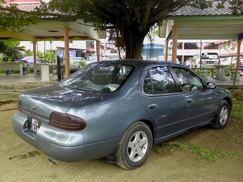 Venue: Seri Kembangan, Selangor, Malaysia